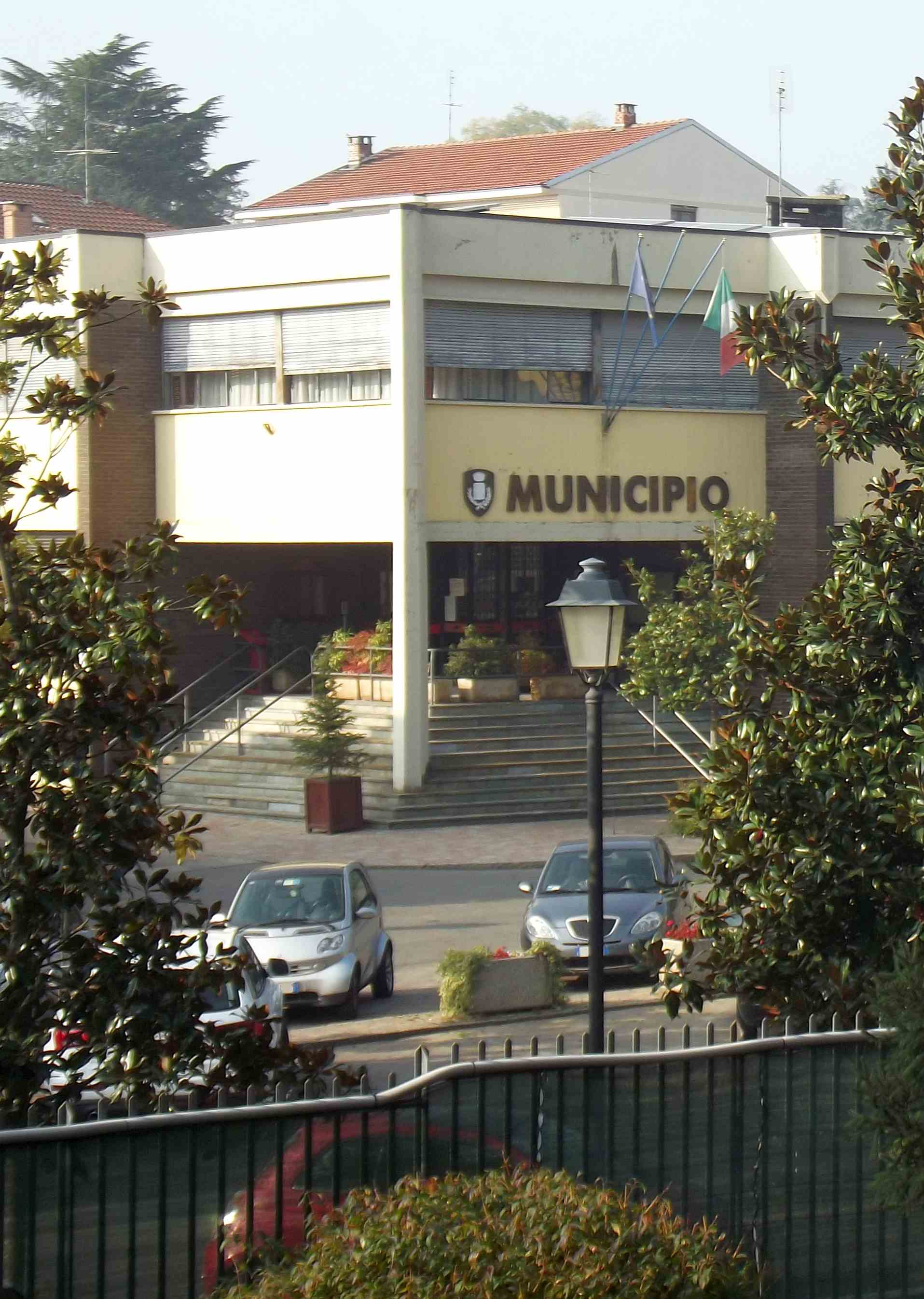 Trofarello (TO, Italy): town hall